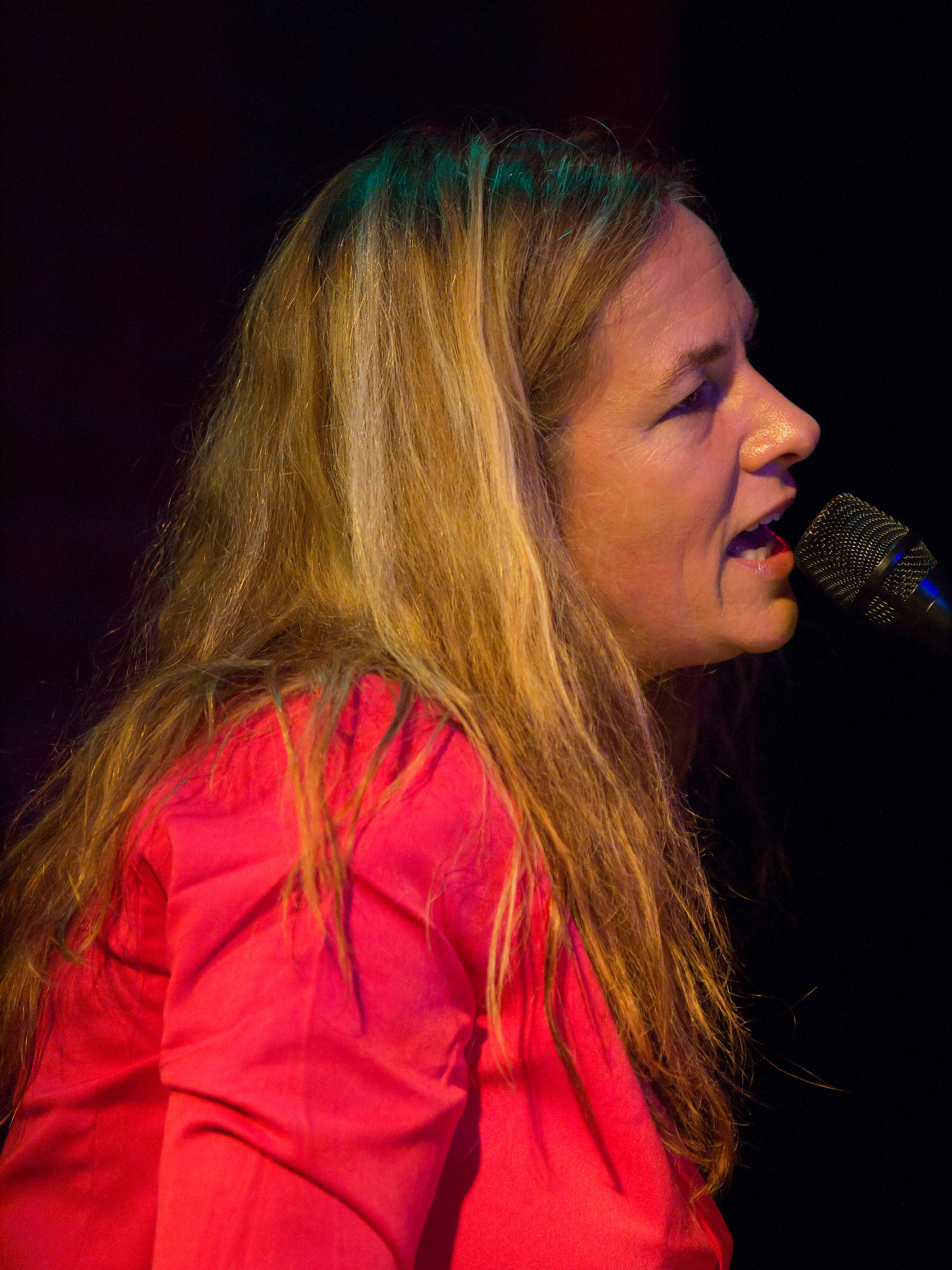 Susi Hyldgaard, Jazz vocalist and pianist; Picture taken in Jazz Club Unterfahrt, Munich/Bavaria